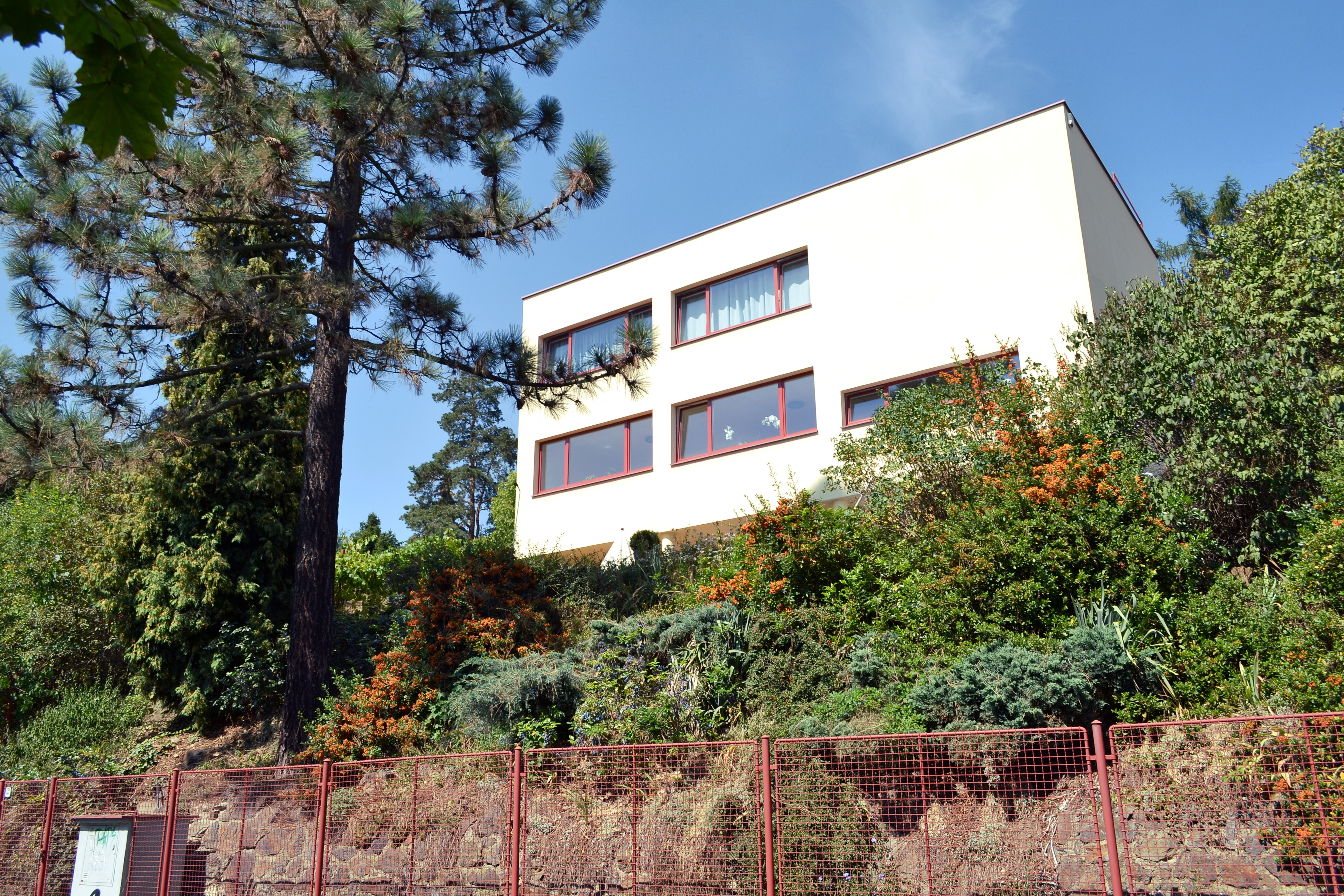 Cultural monument "Vila Sutnar" (villa of graphic designer Ladislav Sutnar), Průhledová 1790/2, Dejvice, Prague 6, Czech Republic. View from Nad Paťankou street.